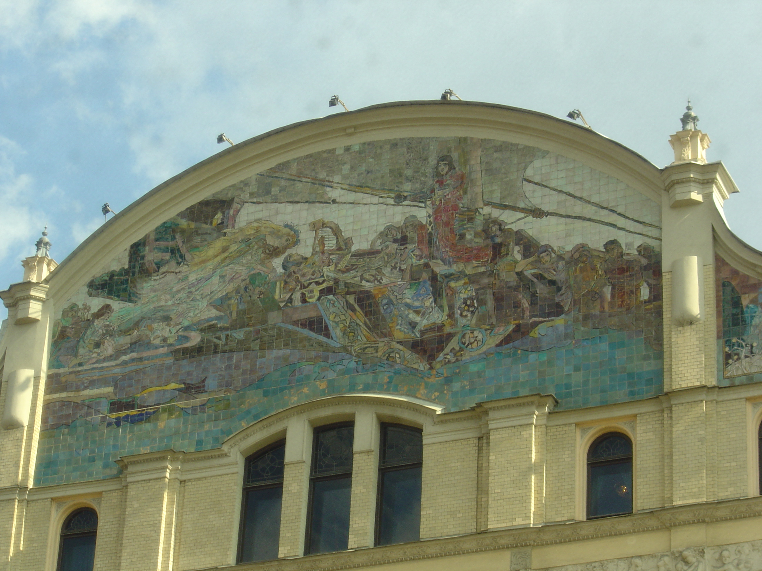 Hotel Metropol, Moscow, M. Vrubel' s mosaic